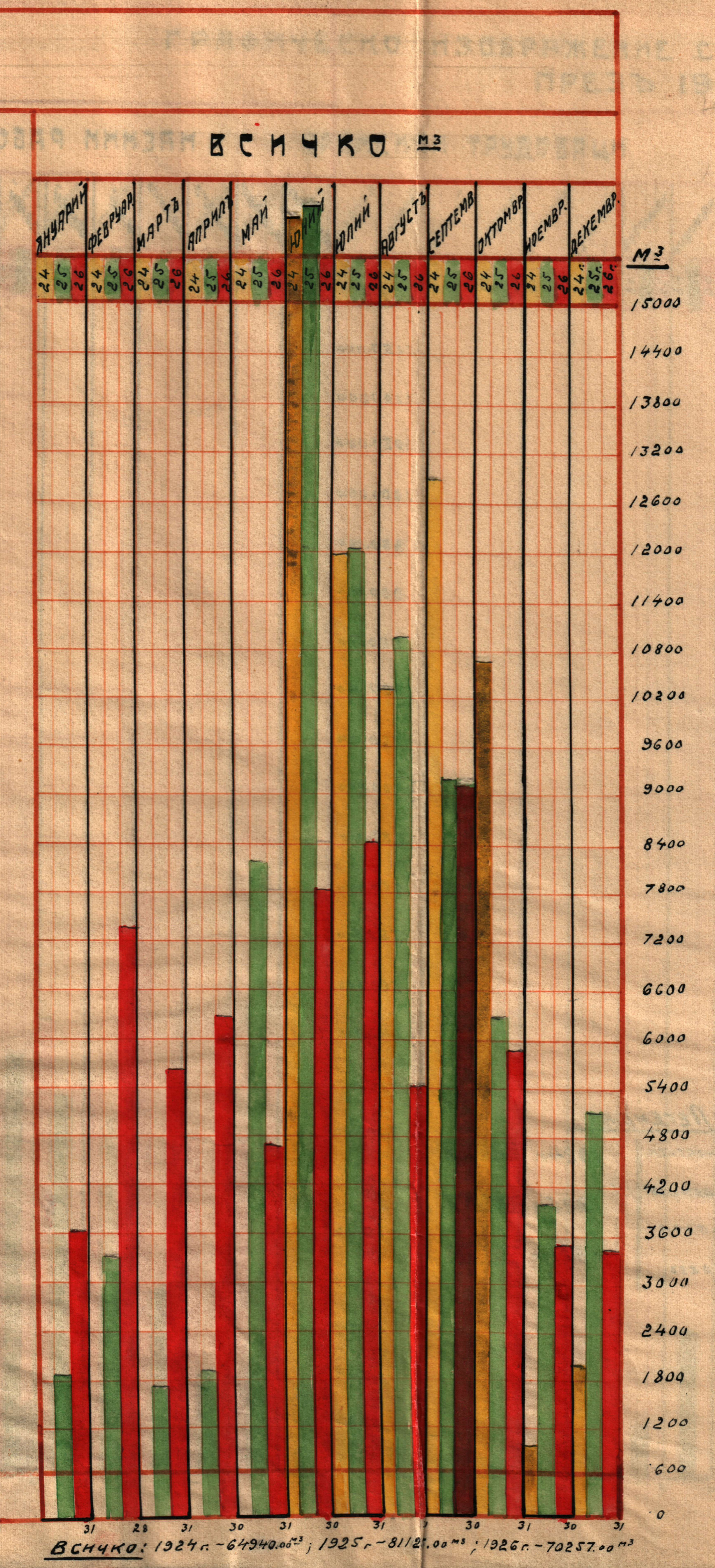 Septemvri-Dobrinishte narrow gauge line